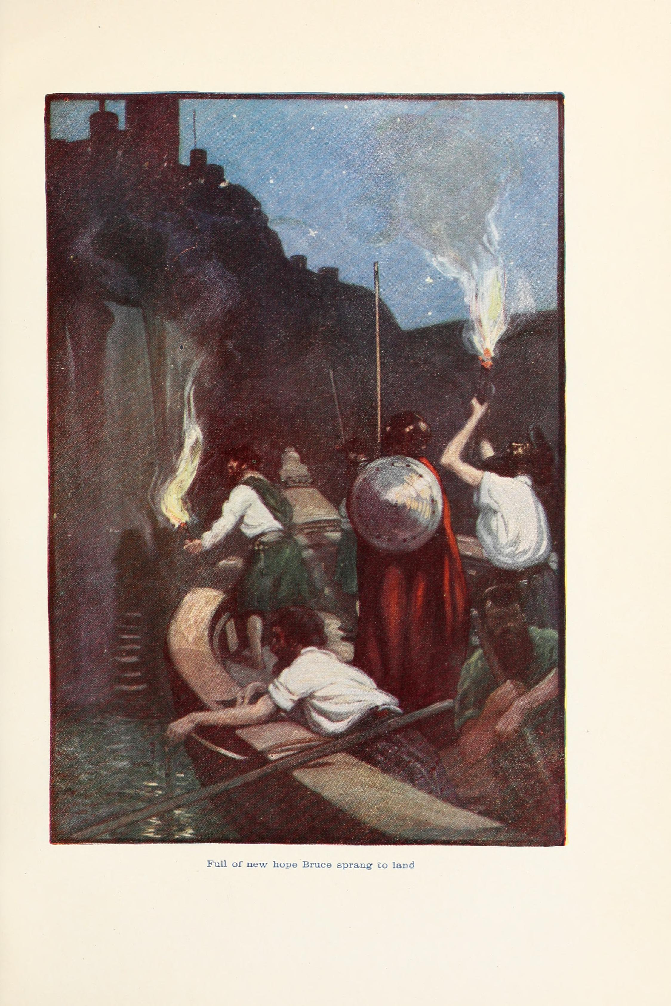 Scotland's story : a history of Scotland for boys and girls by Marshall, H. E. (Henrietta Elizabeth), b. 1876 Published 1907 SHOW MORE List of Kings from Duncan I.: p. 419-421 Publisher London : T.C. & E.C. Jack Pages 496 Possible copyright status NOT_IN_COPYRIGHT Language English Digitizing sponsor MSN Book contributor New York Public Library Collection newyorkpubliclibrary; americana Full catalog record MARCXML [Open Library icon]This book has an editable web page on Open Library.